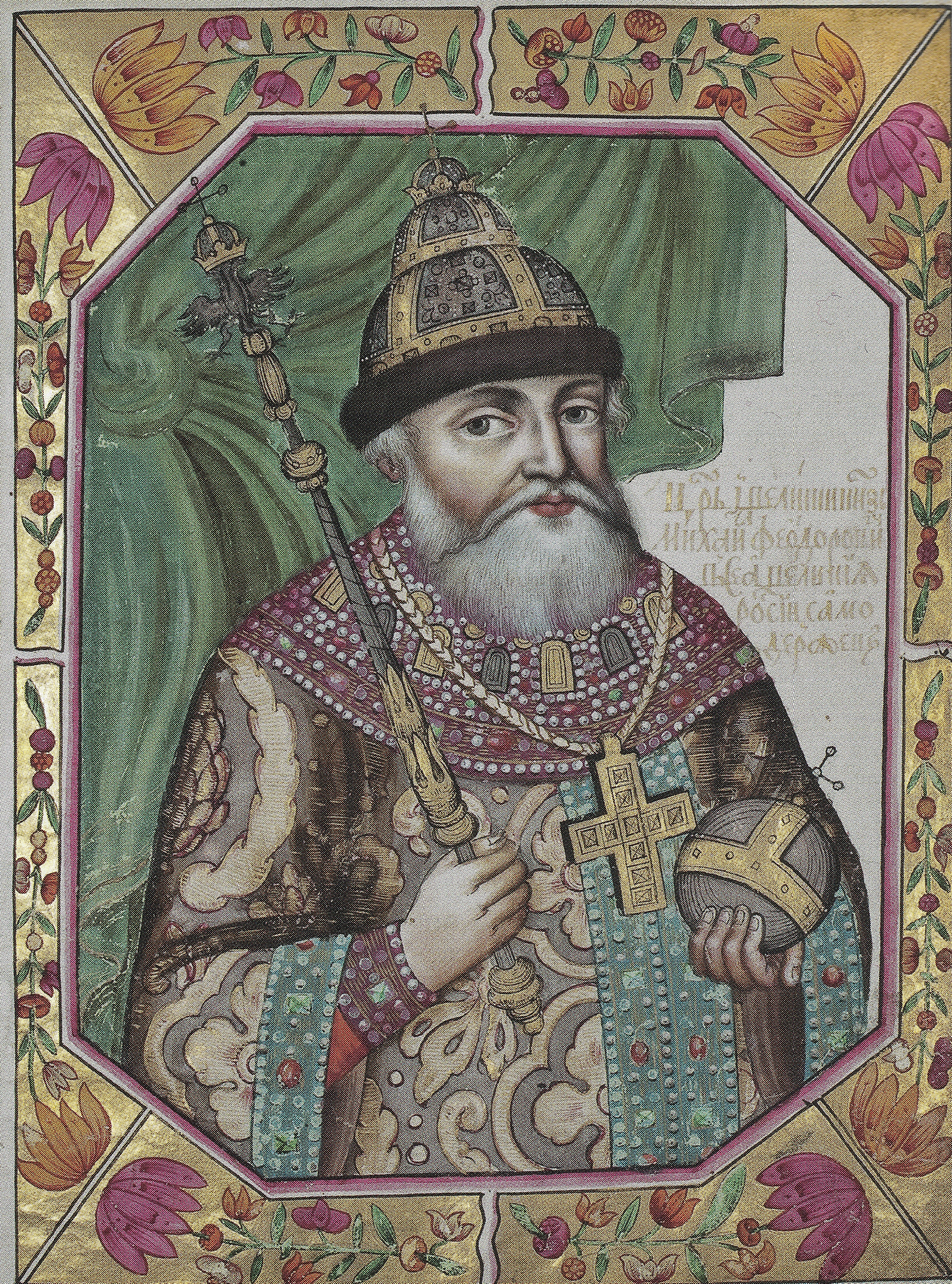 Mikhail I. Fyodorovich Romanov (Russian: Михаи́л Фёдорович Рома́нов) Mikhail Fedorovich Romanov (12 July 1596 – 13 July 1645), the first Russian Tsar of the house of Romanov (1613 - 1645)